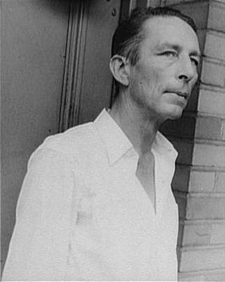 From the collection of the Library of Congress and in the public domain: [Portrait of Robinson Jeffers]. Van Vechten, Carl, 1880-1964, photographer. Created/Published 1937 July 9. Notes Title derived from information on verso of photographic print. Van Vechten number: XLI K 16. Gift; Carl Van Vechten Estate; 1966. Forms part of: Portrait photographs of celebrities, a LOT which in turn forms part of the Carl Van Vechten photograph collection (Library of Congress). Subjects Jeffers, Robinson,--1887-1962. Portrait photographs. Medium 1 photographic print : gelatin silver. Call Number LOT 12735, no. 585 Special Terms of Use For publication information see "Carl Van Vechten Photographs (Lots 12735 and 12736)" Part of Van Vechten, Carl, 1880-1964. Portrait photographs of celebrities Repository Library of Congress Prints and Photographs Division Washington, D.C. 20540 USA Digital ID (intermediary roll film) van 5a52184